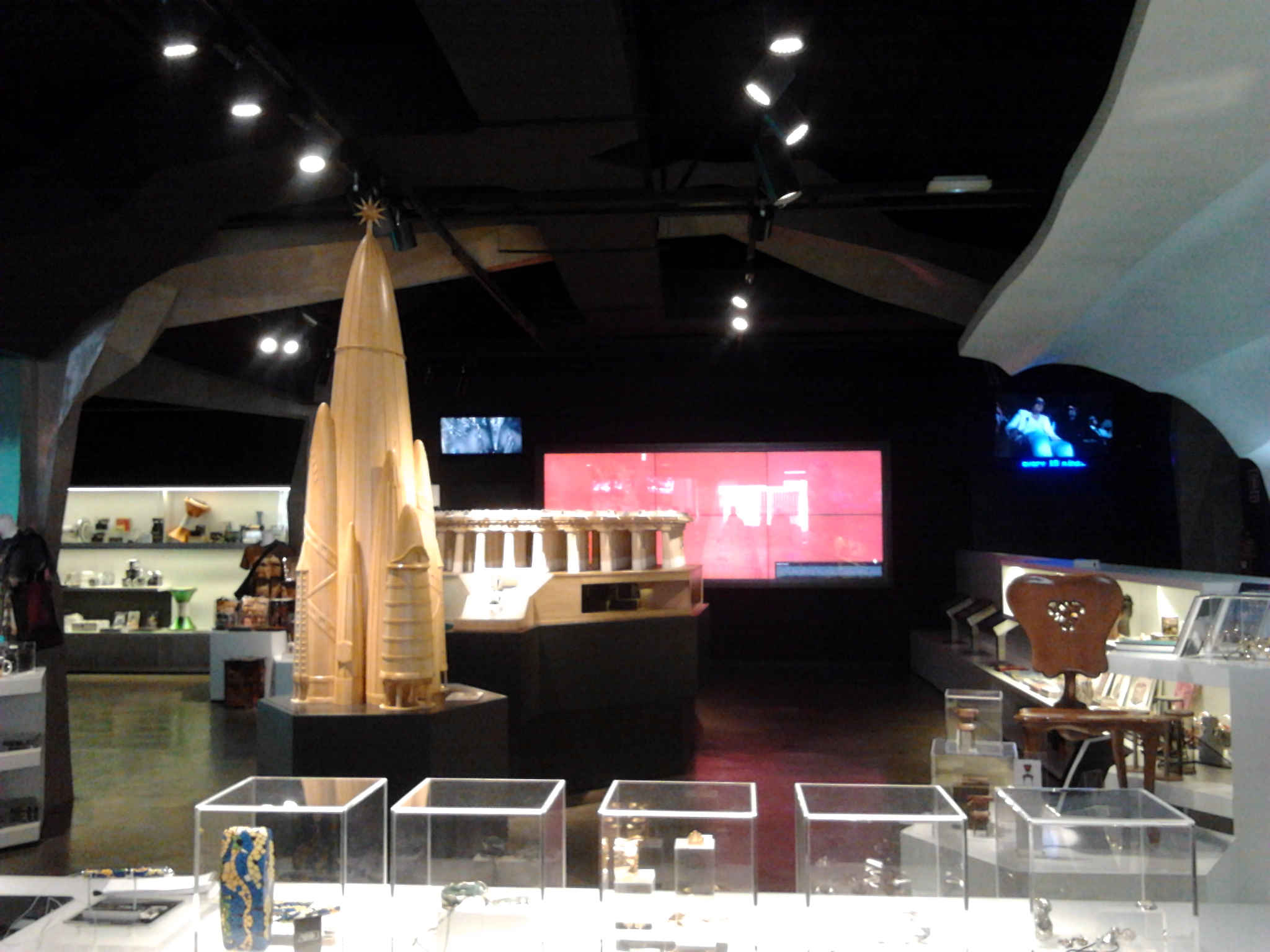 Interactive space Gaudí Experiència, in Barcelona, with a model of Hotel Attraction